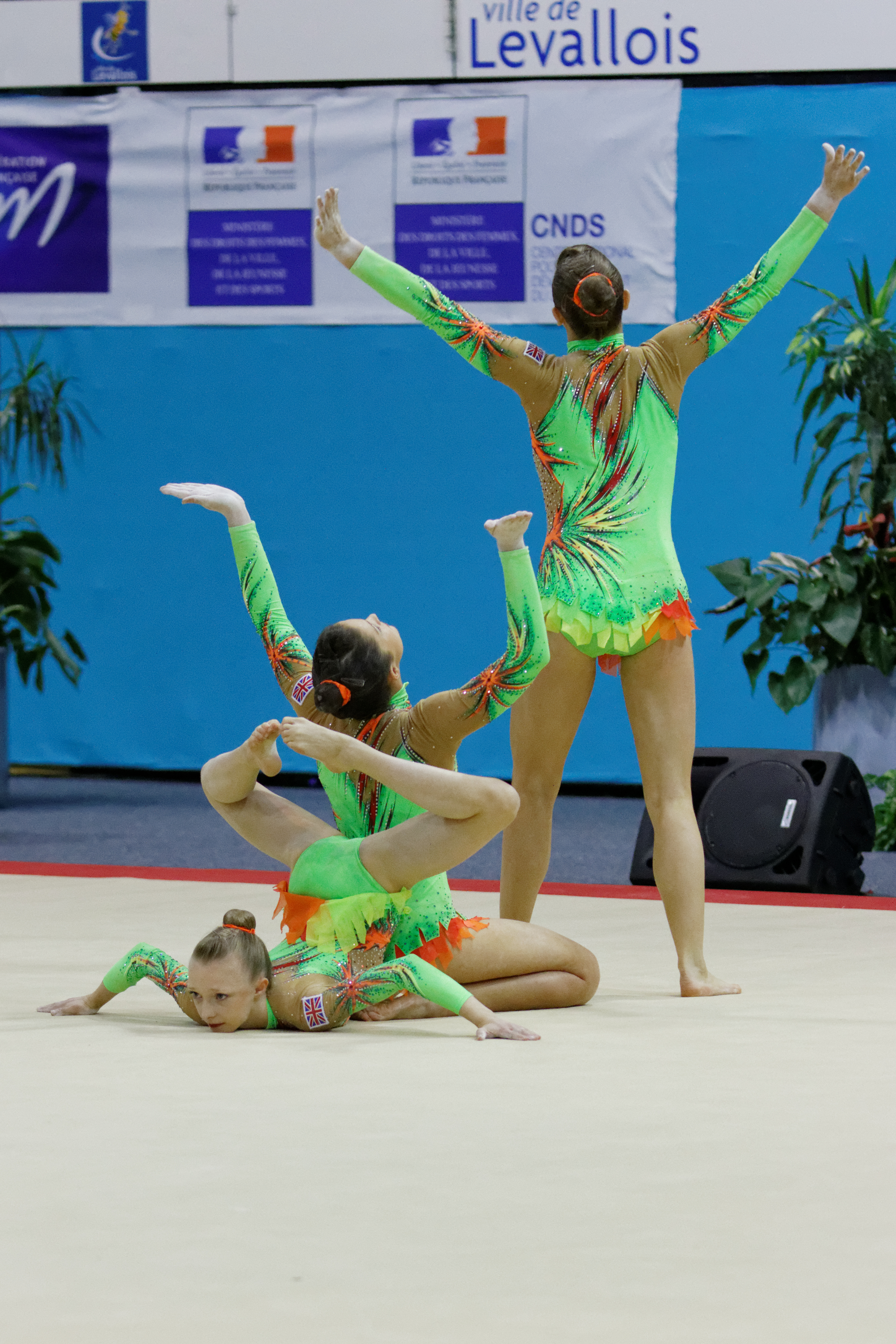 2014 Acrobatic Gymnastics World Championships, 10th-12 July, Levallois-Perret, France. Qualifications: women's group. Great Britain.